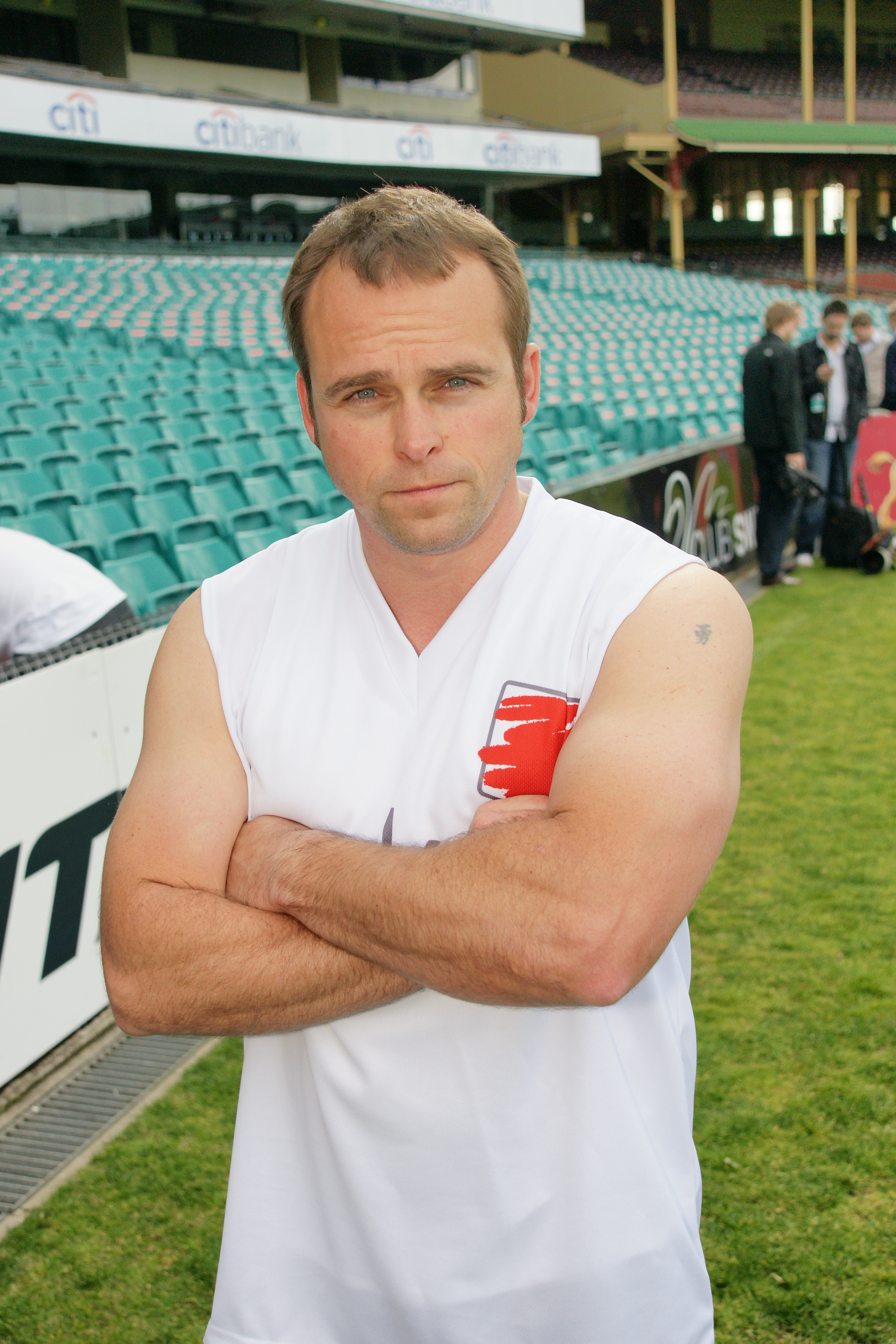 Australian actor Les Hill brings an 'Underbelly' attitude to the game! Pictured by Damian White.